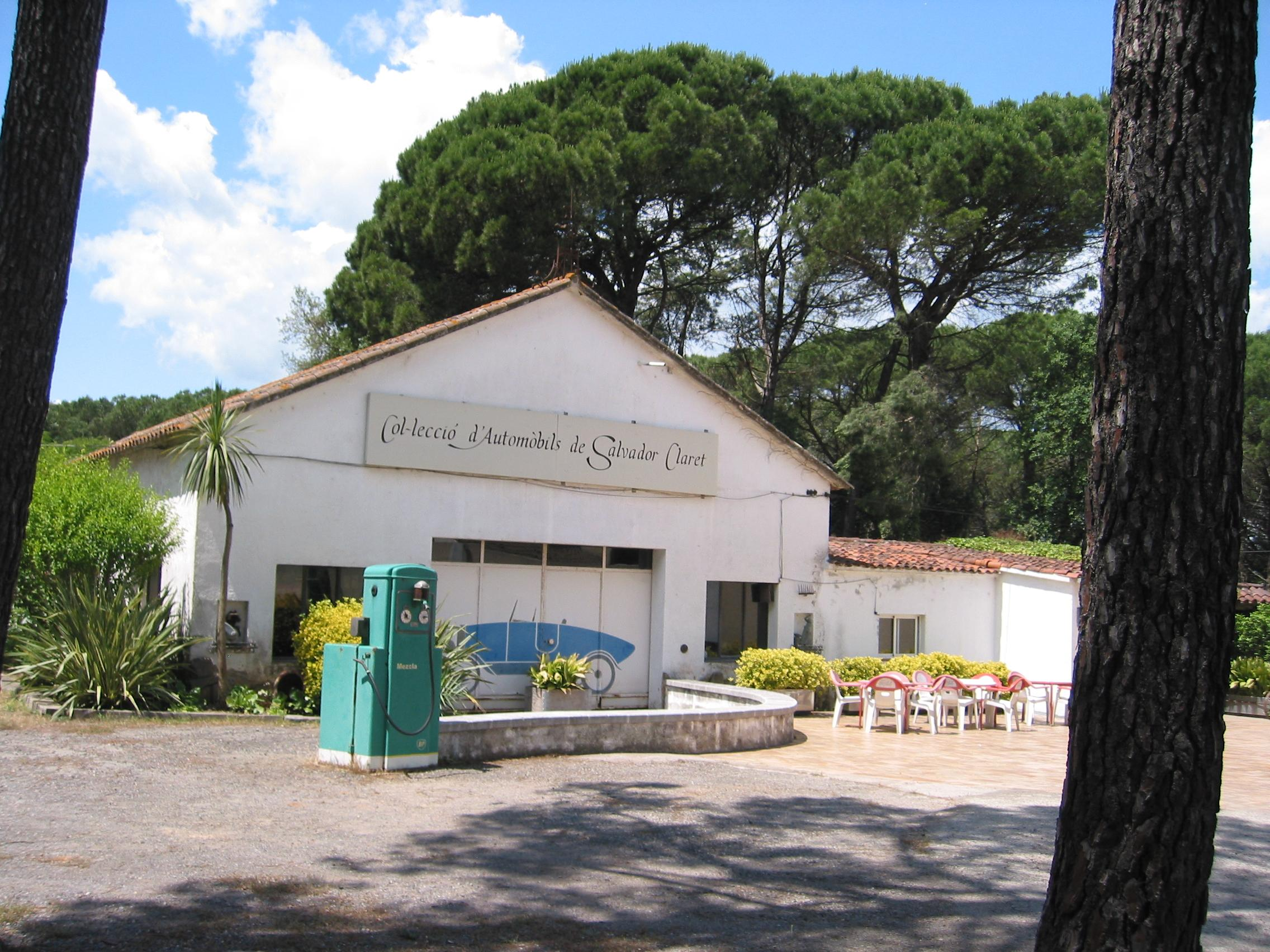 Building of the Car Museum in Sils, Spain